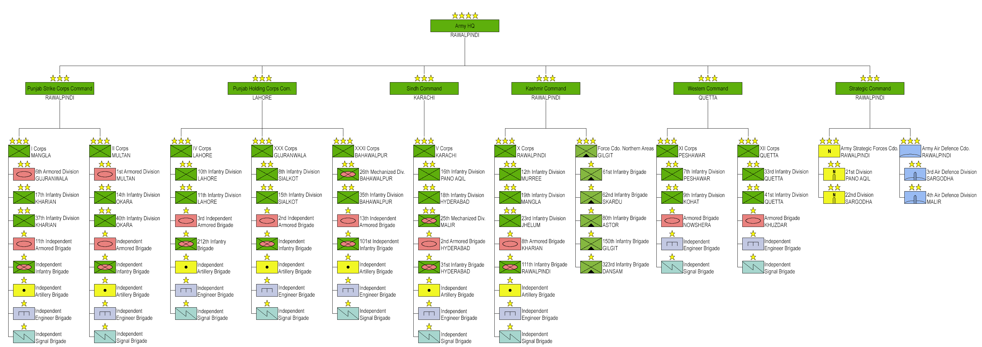 Peace Time structure of the Pakistani Army 2013 - best possible graphic according the few available sources.